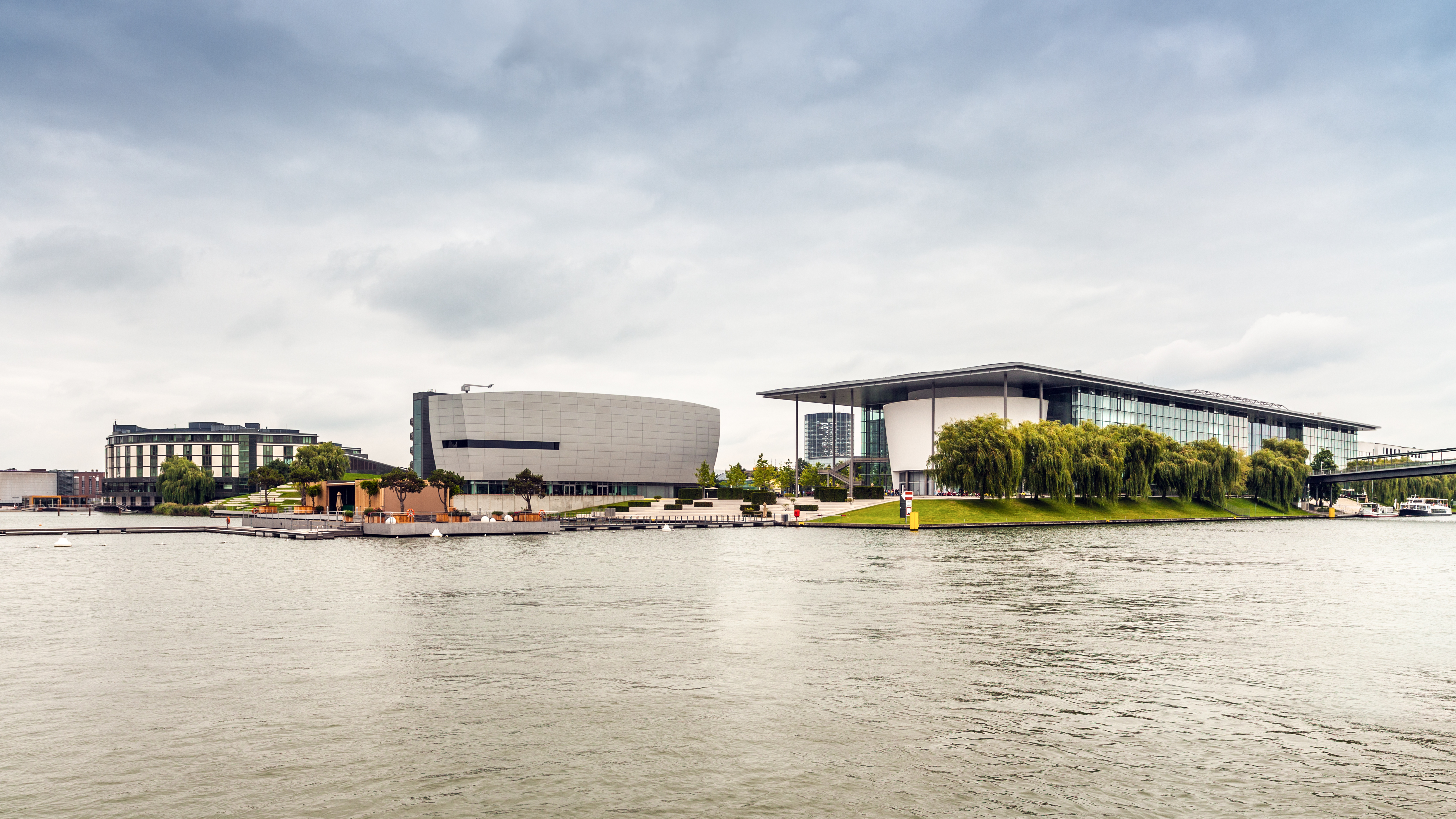 Autostadt Wolfsburg seen from Mittellandkanal. The Autostadt is a museum and amusement park of Volkswagen AG in Wolfsburg, close to the Volkswagen factory.